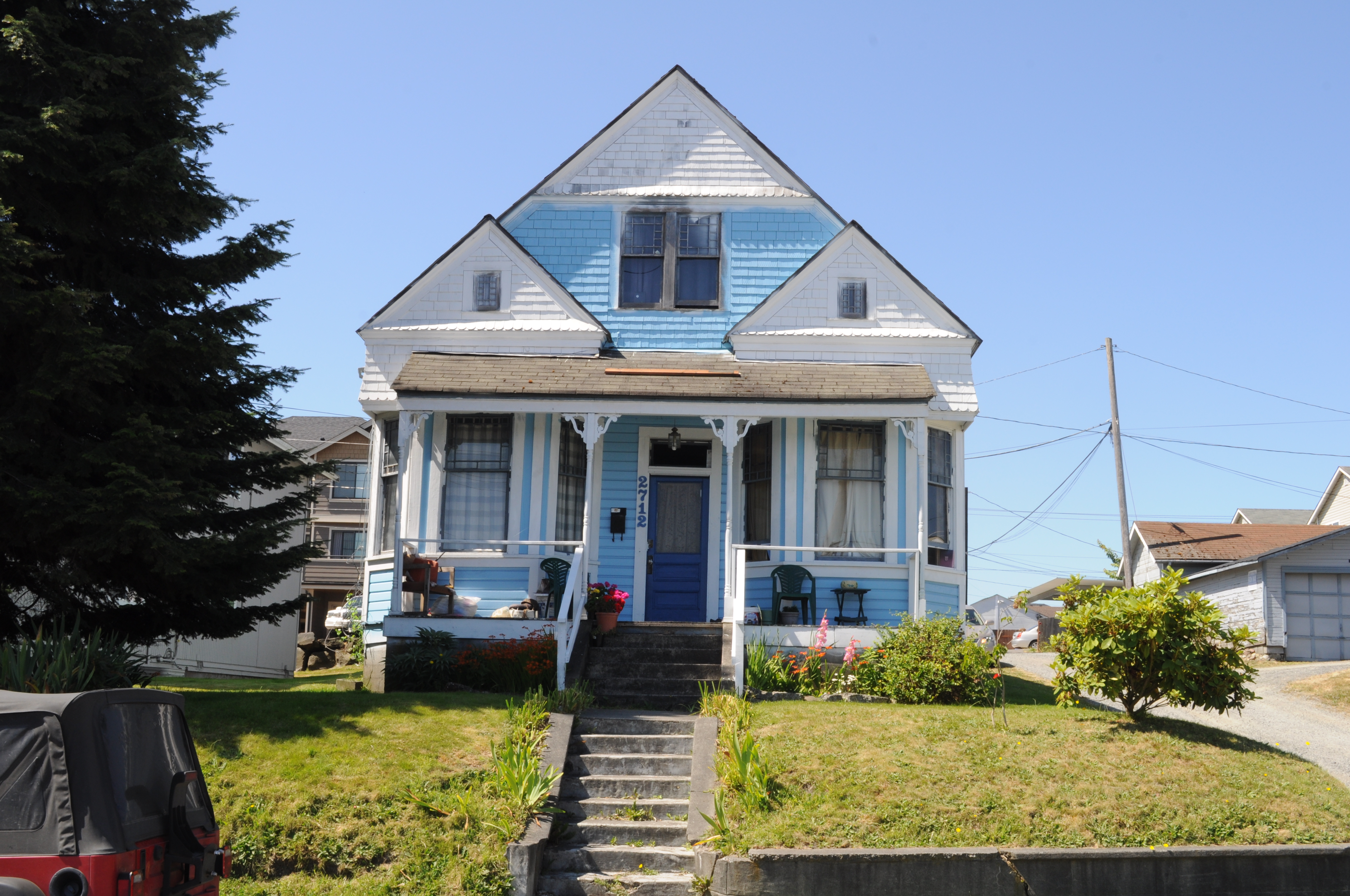 Swalwell Cottage, 2712 Pine Street, Everett, Washington, USA. The building is listed on the National Register of Historic Places.